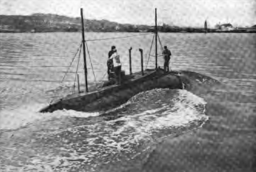 Photograph of the American submarine, USS Pike (SS-6) under way circa 1907